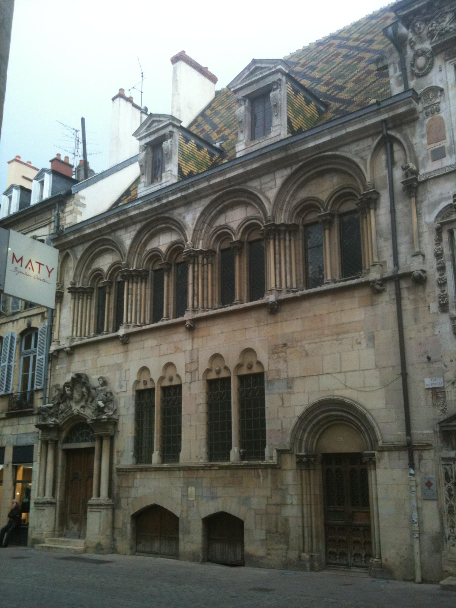 Hotel Aubriot Dijon